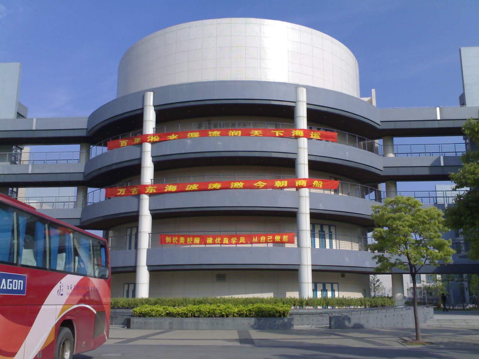 Shanghai Maritime University